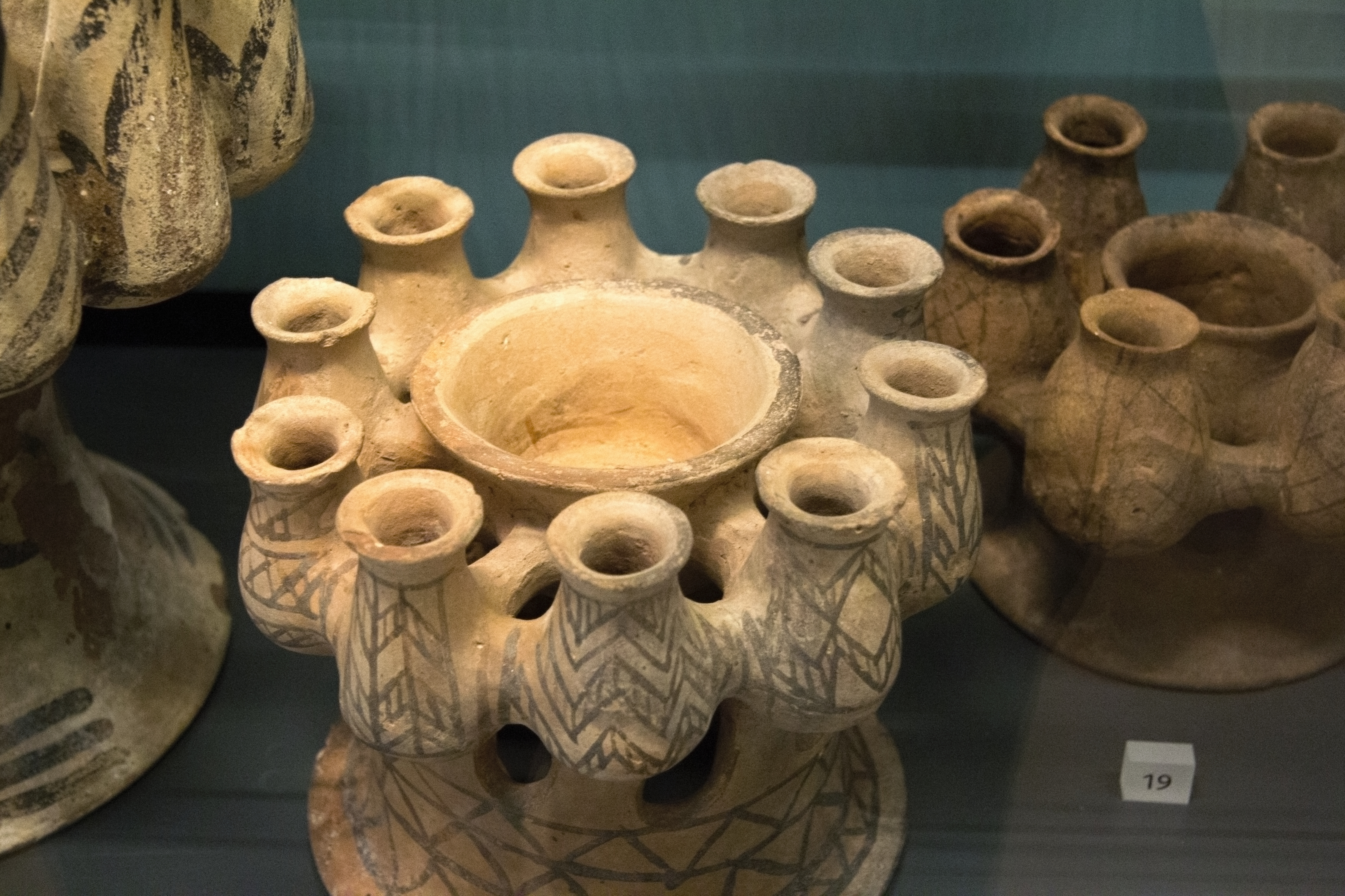 Clay kernoi with linear decoration. Probably a specialty of Melos. Probably from Melos. Early Bronze Age, EC III, 2300 – 2100 BC. Ashmolean Museum, Oxford AN 1971.157, AN1911.442.